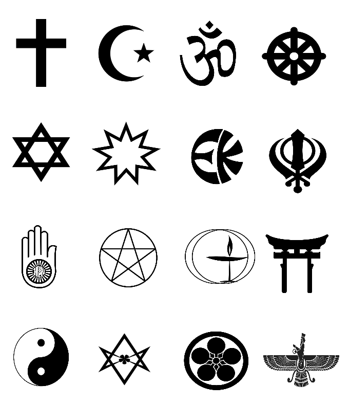 Symbols representing various religionists:Christians, Muslims, Hindus, Buddhists, Jews, Baha'is, Eckists, Sikhs, Jains, Wiccans, UU's, Shintoists, Taoists, Thelemites, Tenrikyoists, Zoroastrians